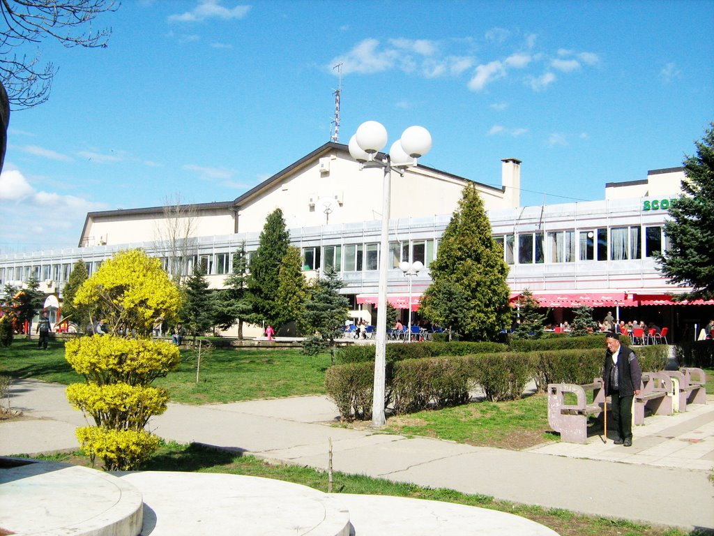 Culture center "Asim Vokshi " in Gjakova